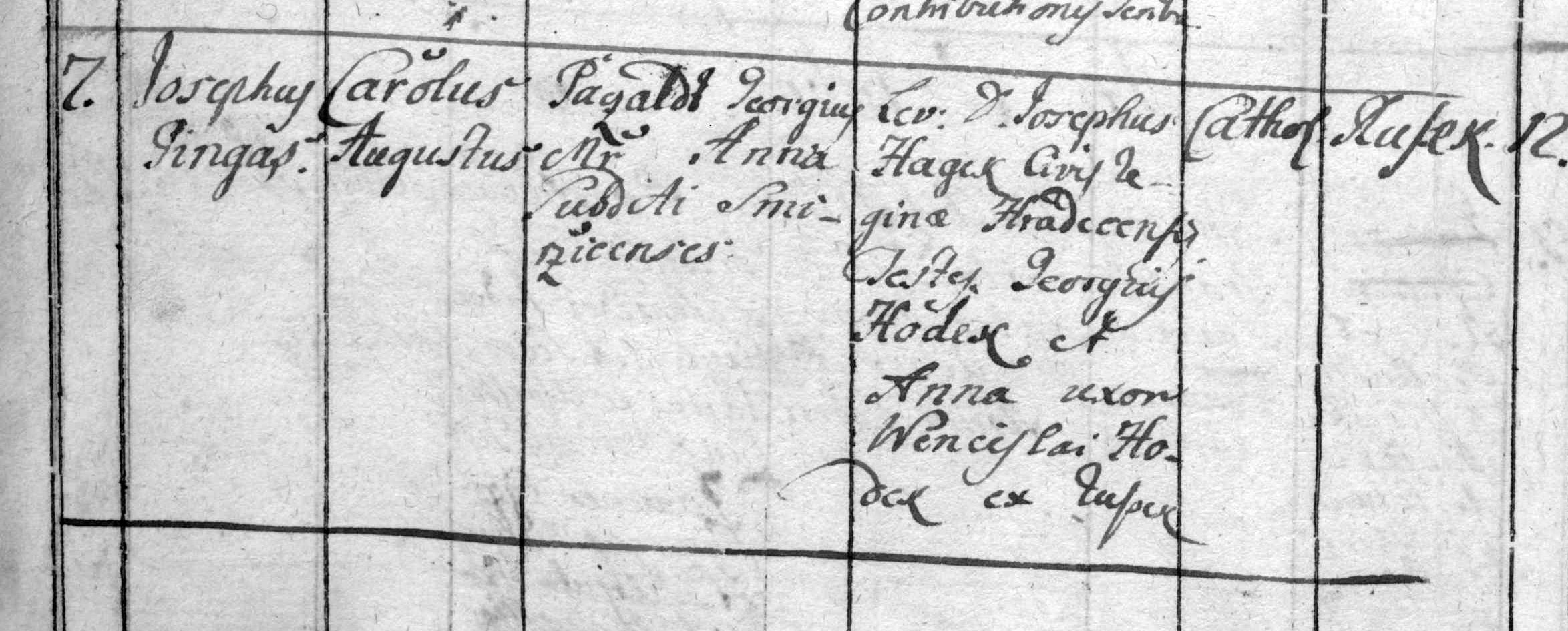 Karel August Pácalt, Czech missionary in Africa, birth record